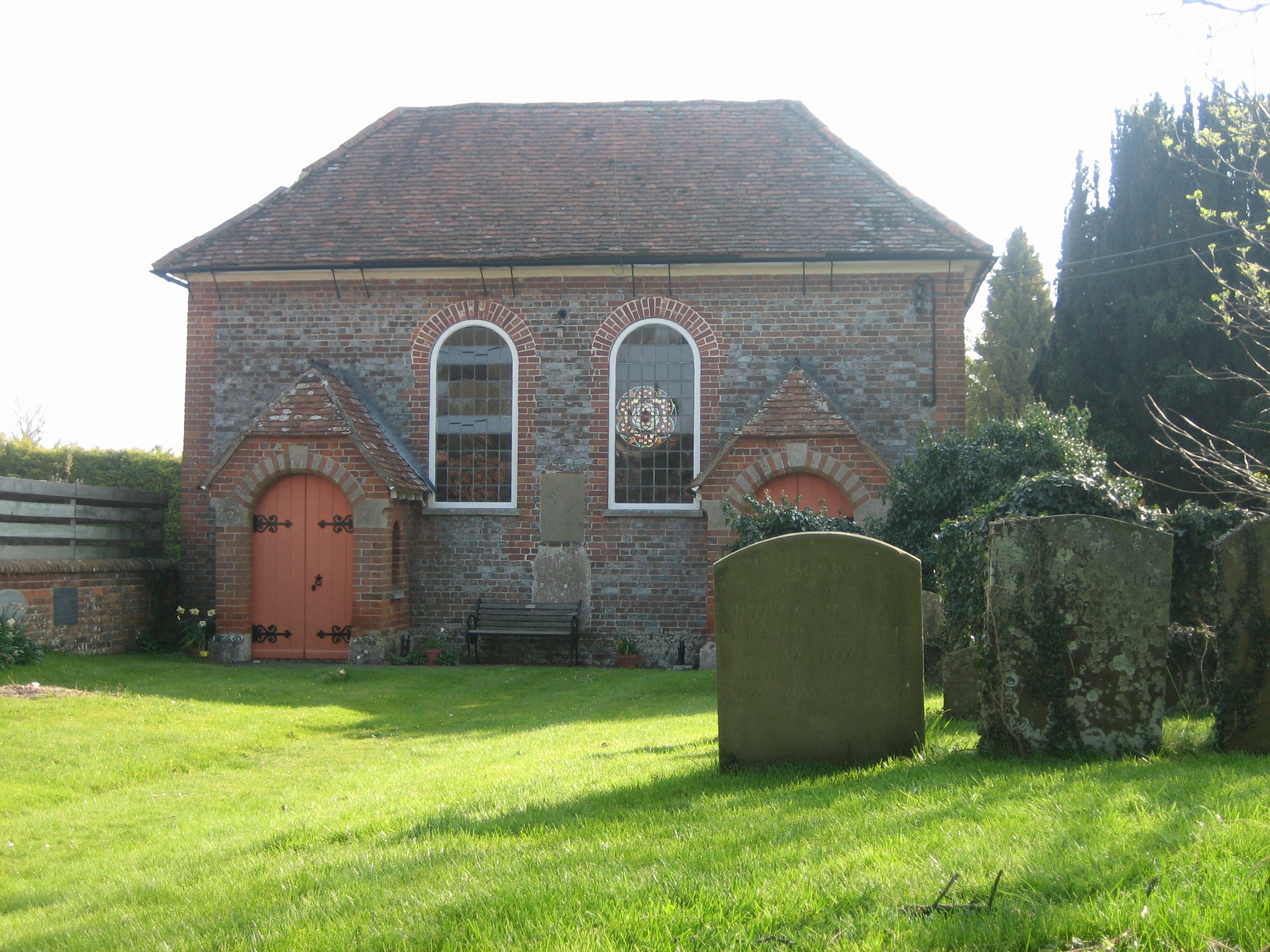 Aston Tirrold United Reformed Church, Berkshire Downs